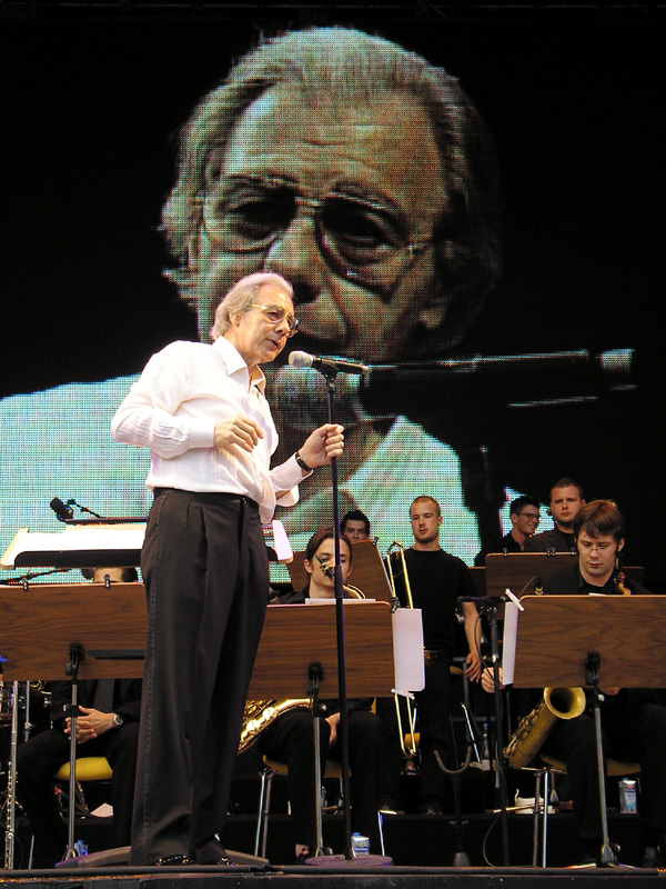 Lalo Schifrin in concert with the Big Band of the Kölner Musikhochschule on July 7th 2006 in Cologne, Germany.